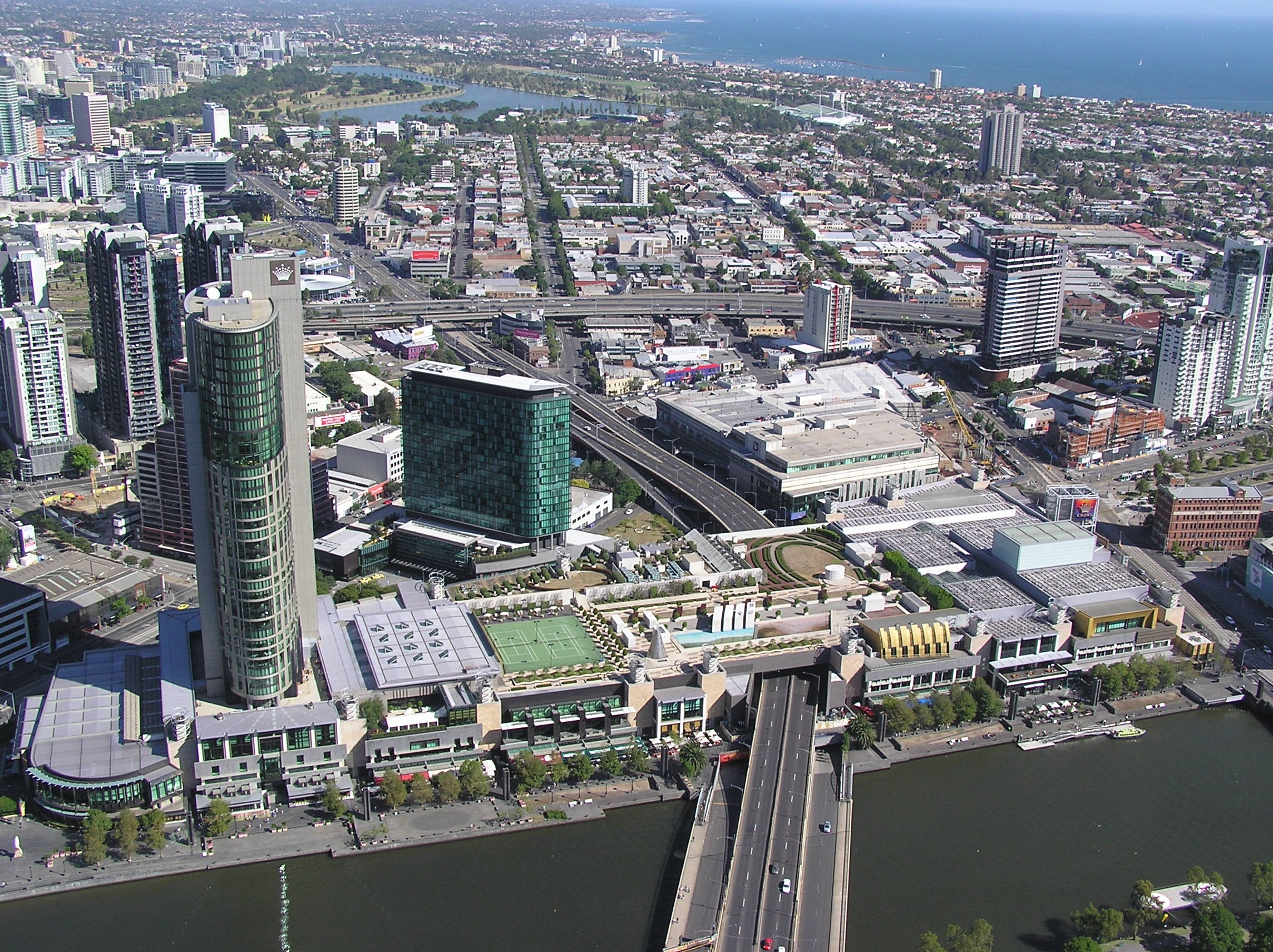 Overview at Melbourne Crown Casino